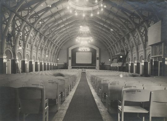 The interior of the Palads Cinema in the former central station before it was demolished and a new Building was built in 1917 in Copenhagen, Denmark